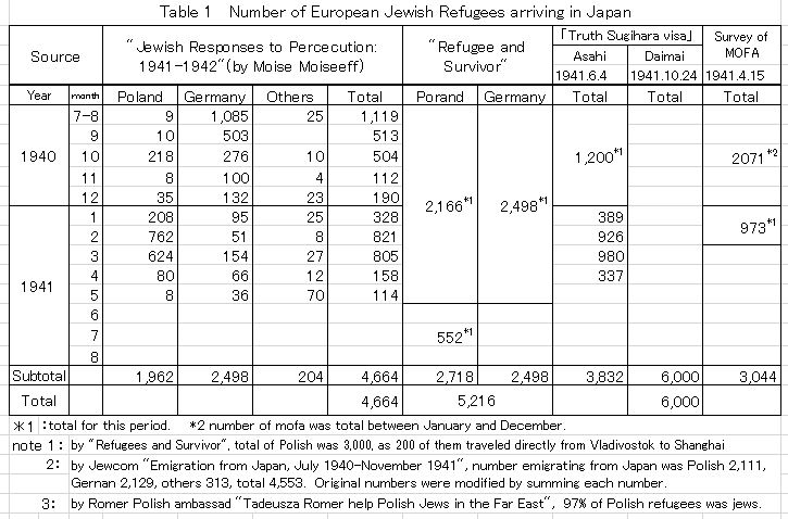 to understand Jewish refugees who were saved by Sugihara visa.